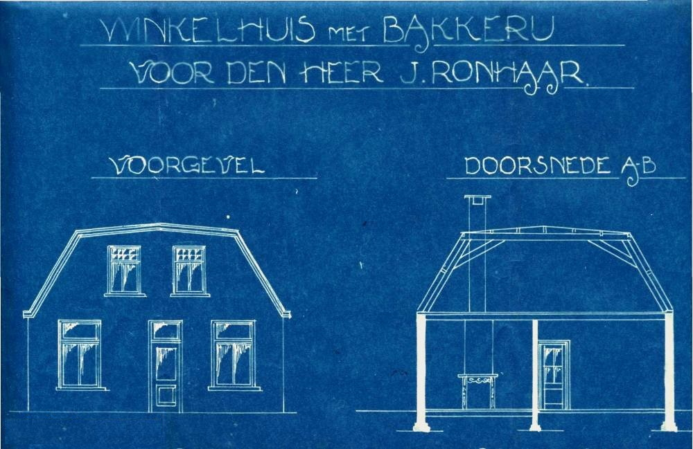 Blueprint of a bakery with shop and residence, 1923 at Hammersweg in Ommen, demolished in 2007. The nearly flat upper part of the gambrel roof is sometimes seen in the middle and east of the Netherlands, but very uncommon in the southern part of the country.